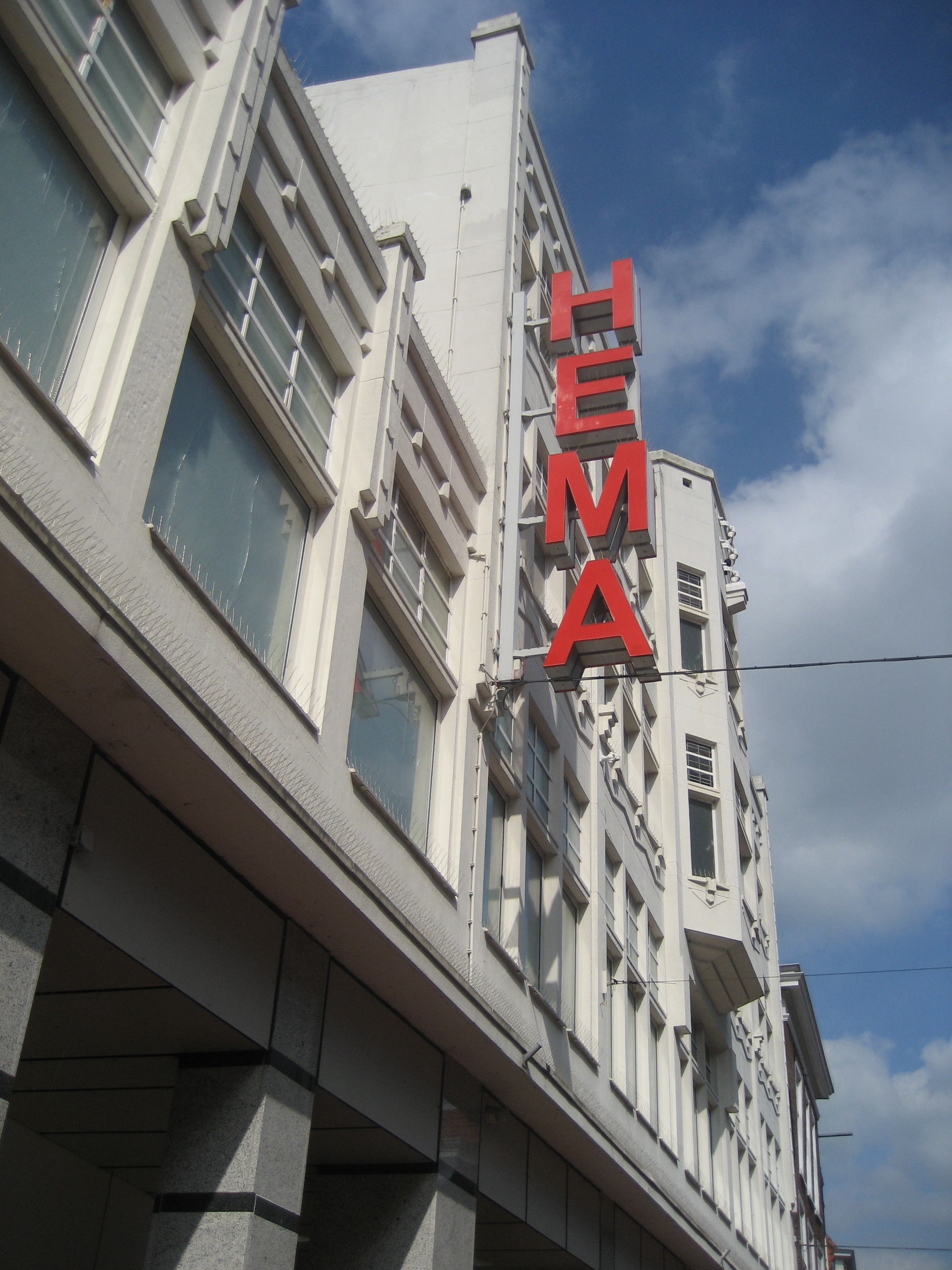 HEMA, Haarlemmerstraat, Leiden (The Netherlands)